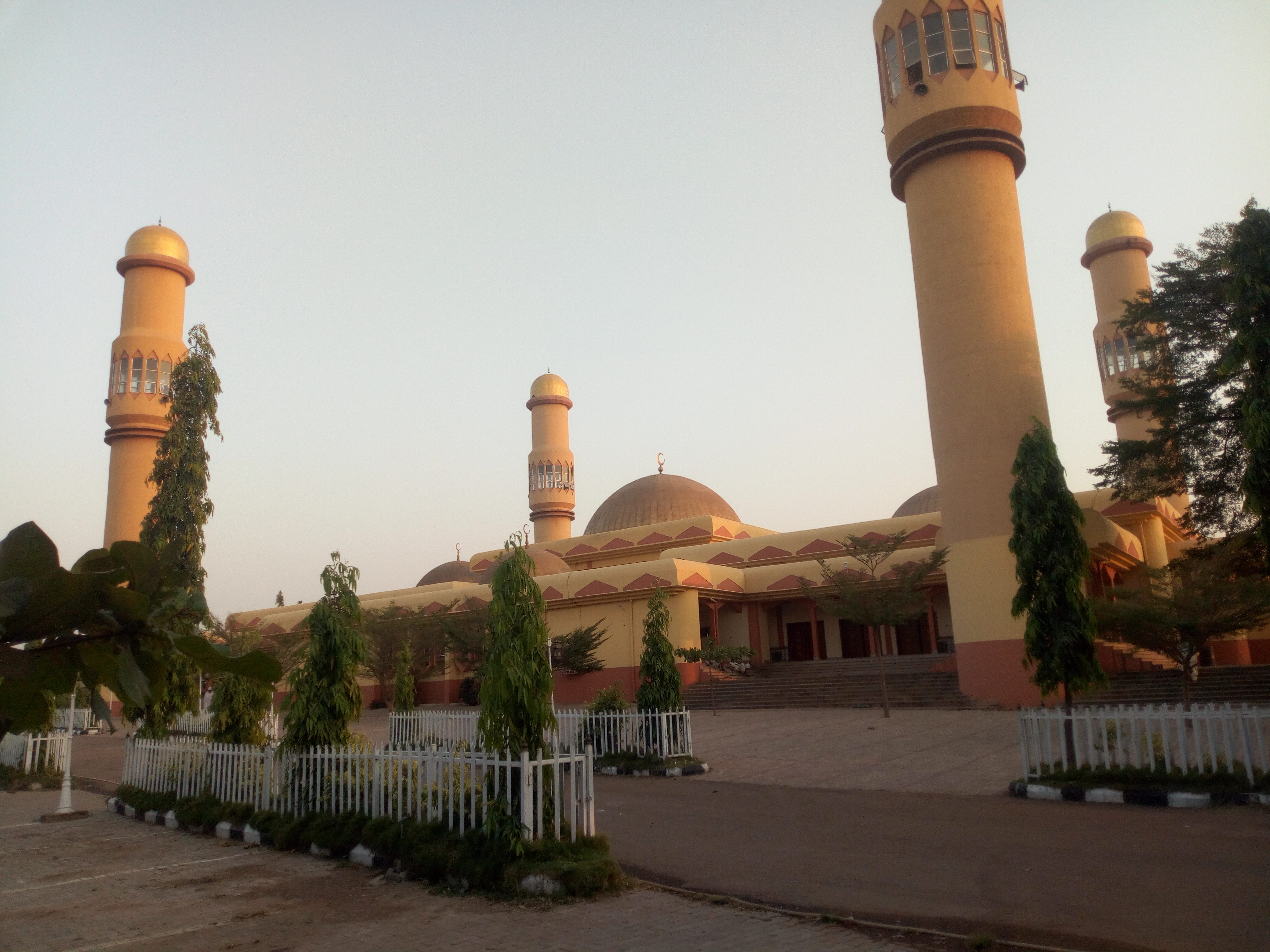 The central place of worship for Muslims in kaduna state. Kaduna central mosque